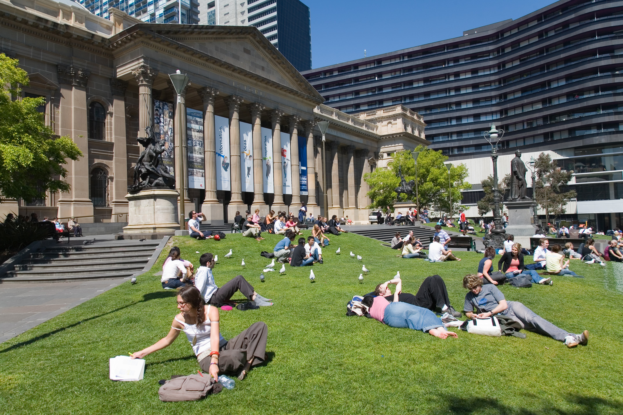 A photo taken on a warm spring day at lunch time. City workers and students of nearby universities are relaxing on the grass outside the State Library. Taken by myself on 17th of October 2005 with a Canon 5D, with a 24-105mm f/4 IS lens.